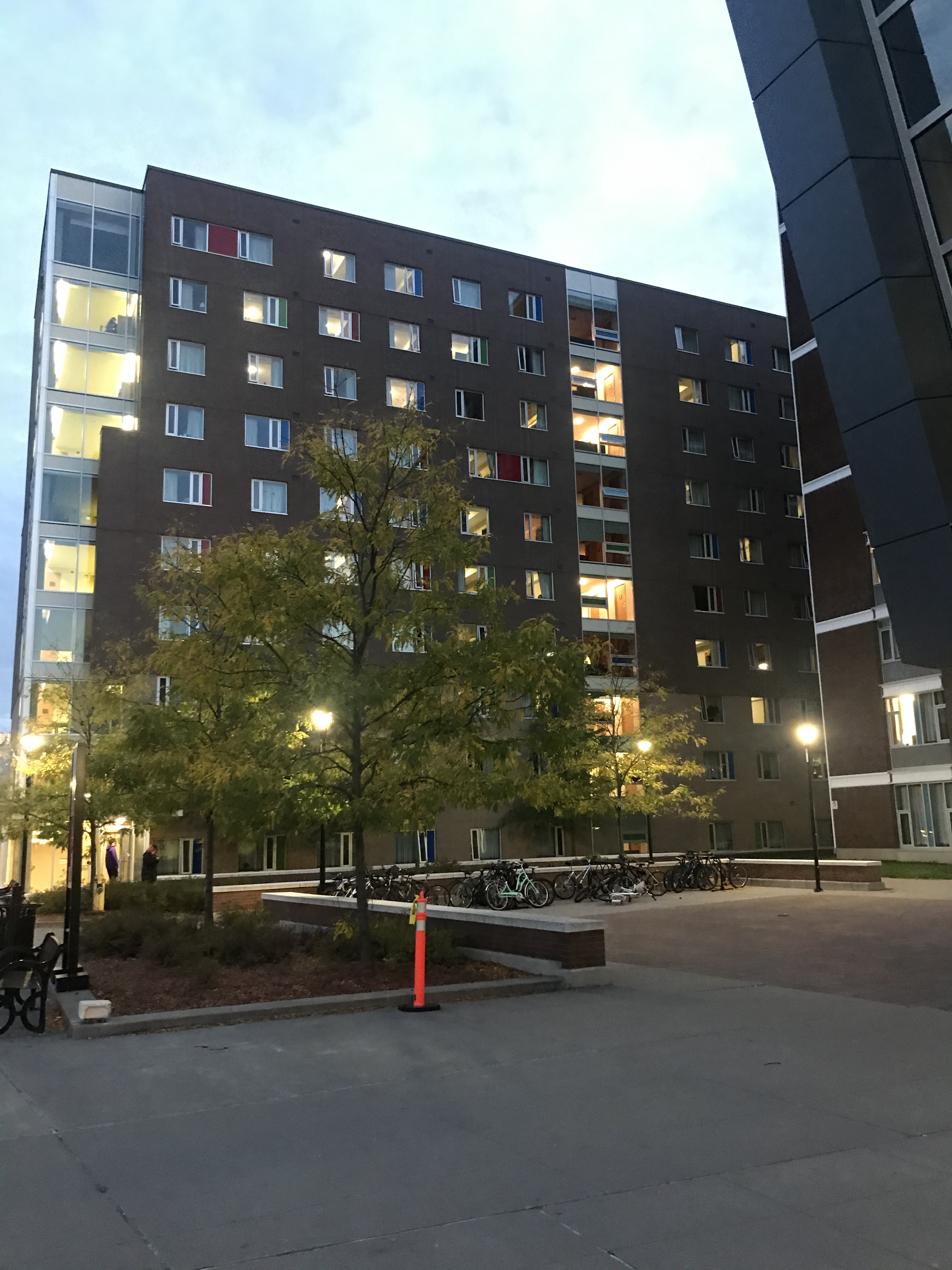 Lennox and Addington House, Carleton University